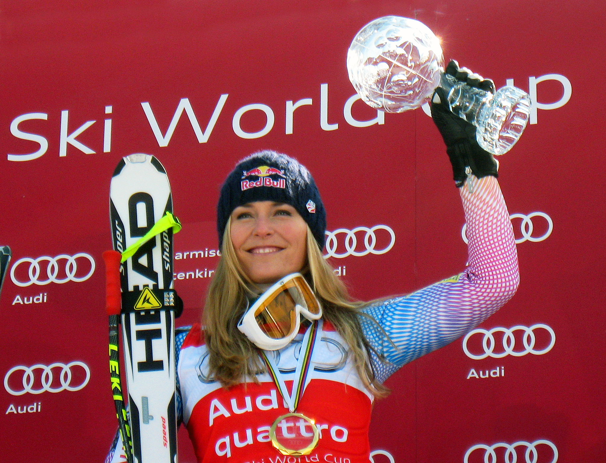 Olympic champion Lindsey Vonn holds the crystal globe she won for taking the season long Audi FIS World Cup downhill title after the final downhill race of the season in Garmisch-Partenkirchen, Germany. (Doug Haney/U.S. Ski Team)